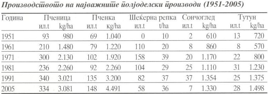 Production of the most important agricultural products in Macedonia from 1951 to 2005